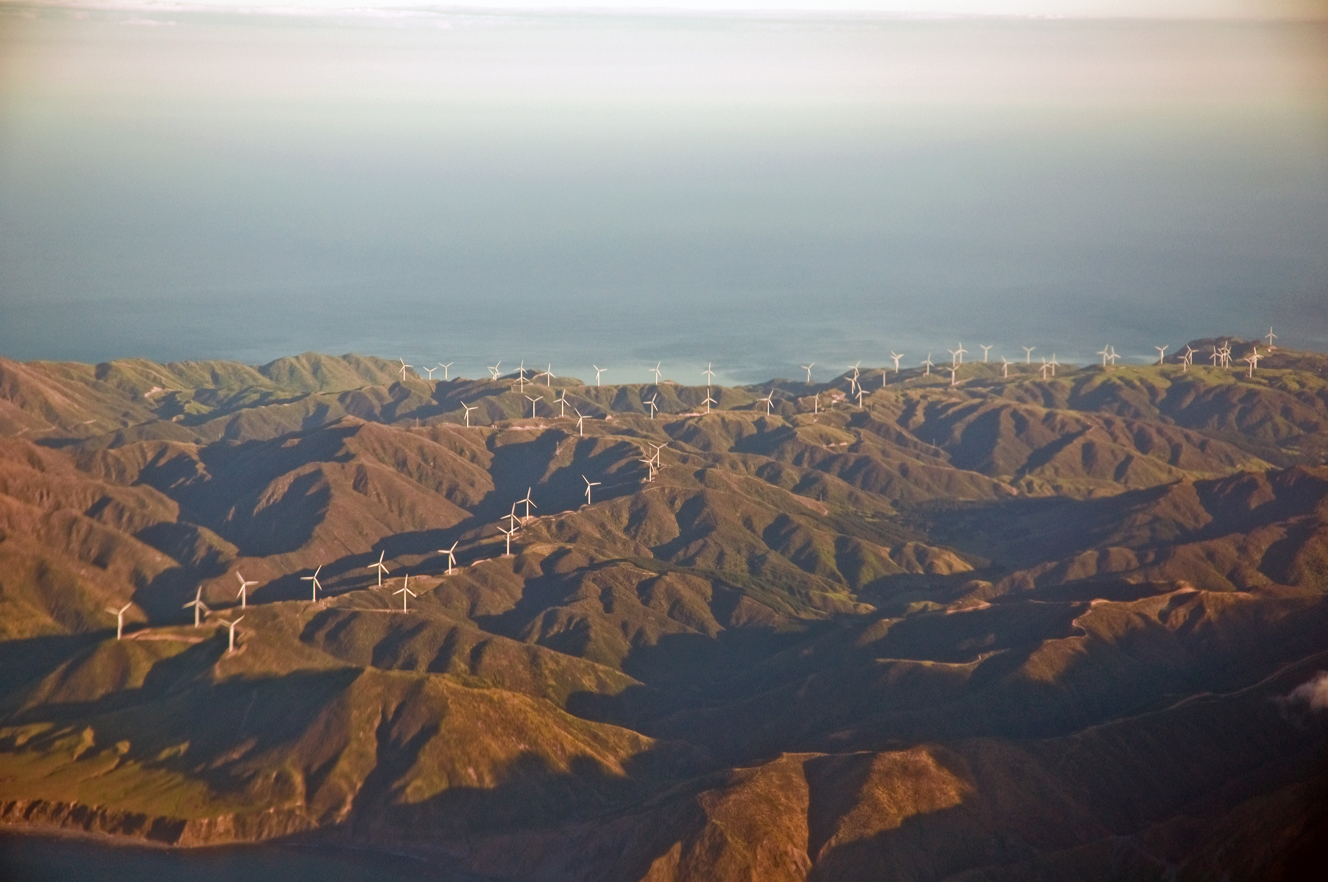 From an Air NZ A320 departing for Sydney